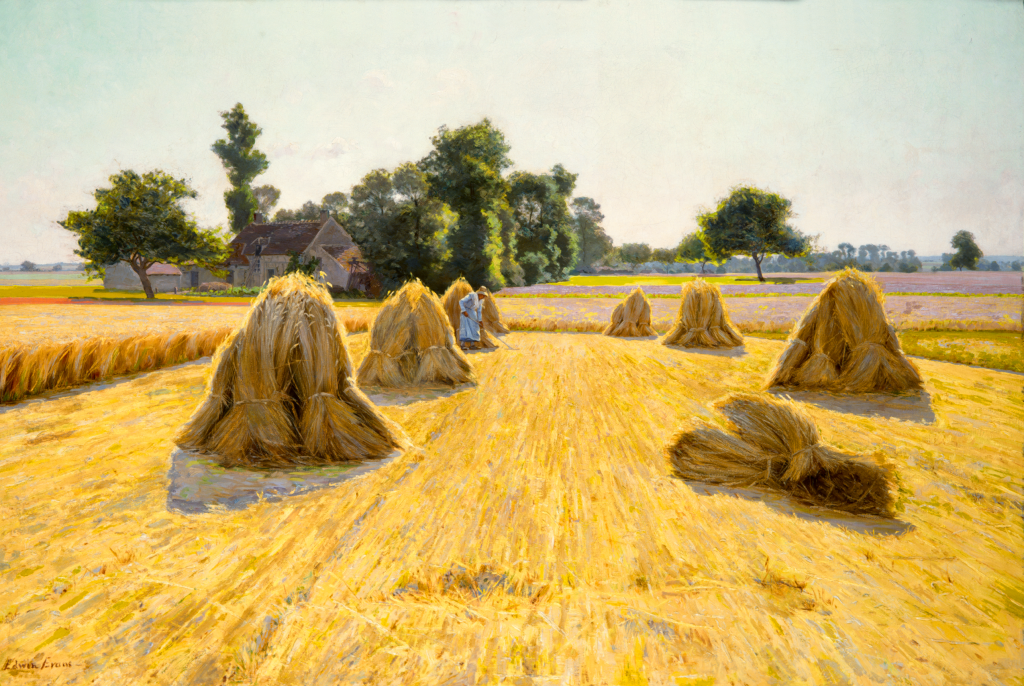 Grain Fields, Brigham Young University Museum of Art